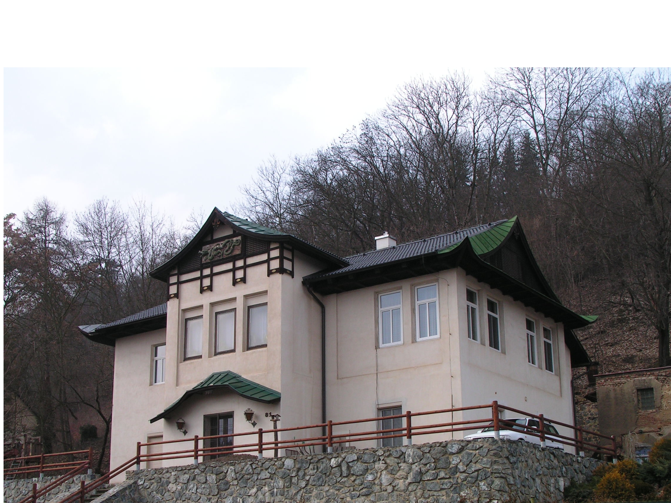 Villa „Sakura“ in Roztoky, Prague-West District, Tiché údolí no. 81 (from the year 1924)